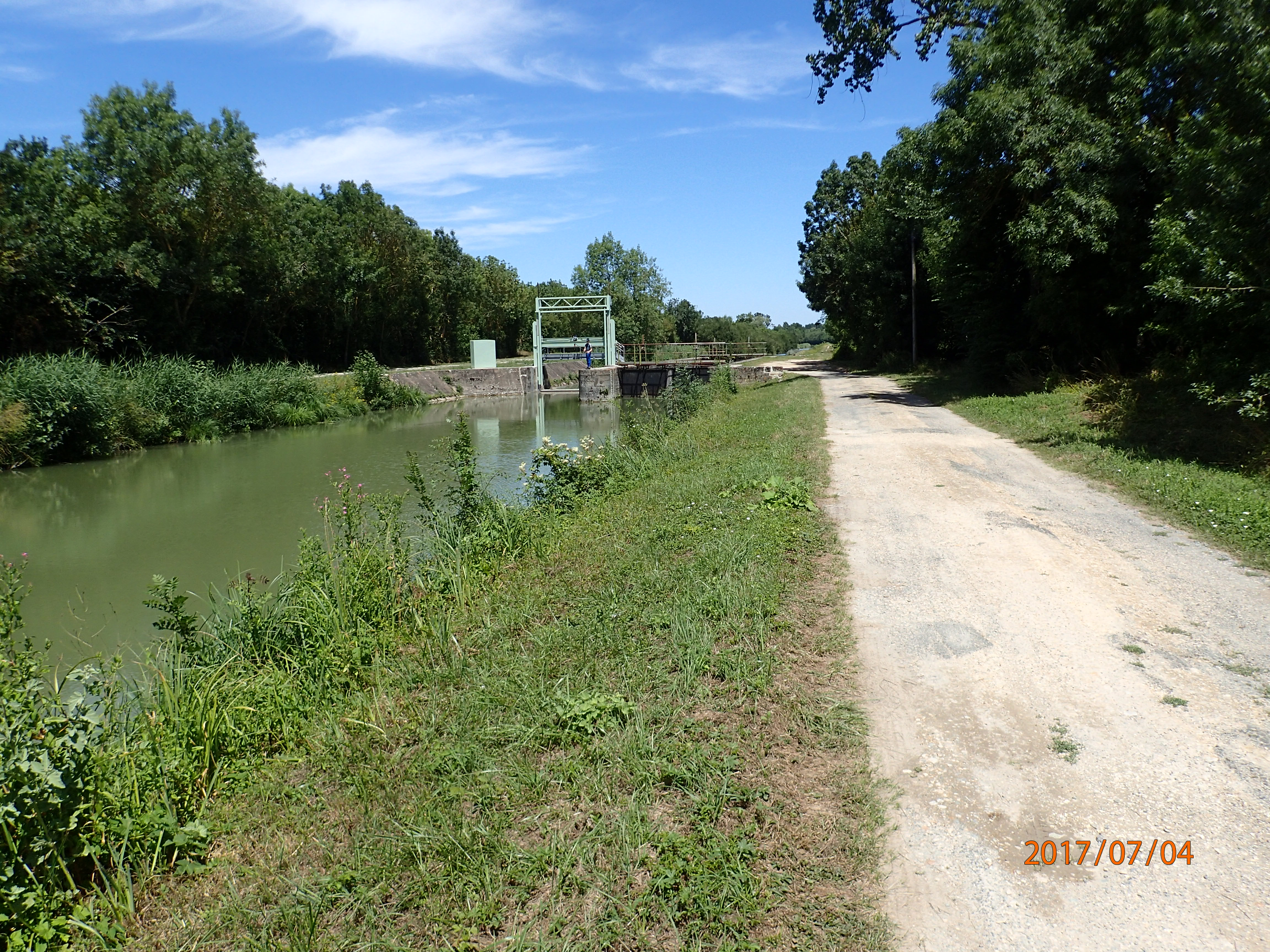 Canal du Mignon